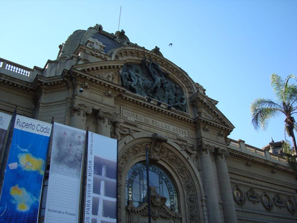 The Museu Nacional de Bellas Artes, Santiago, Chile.